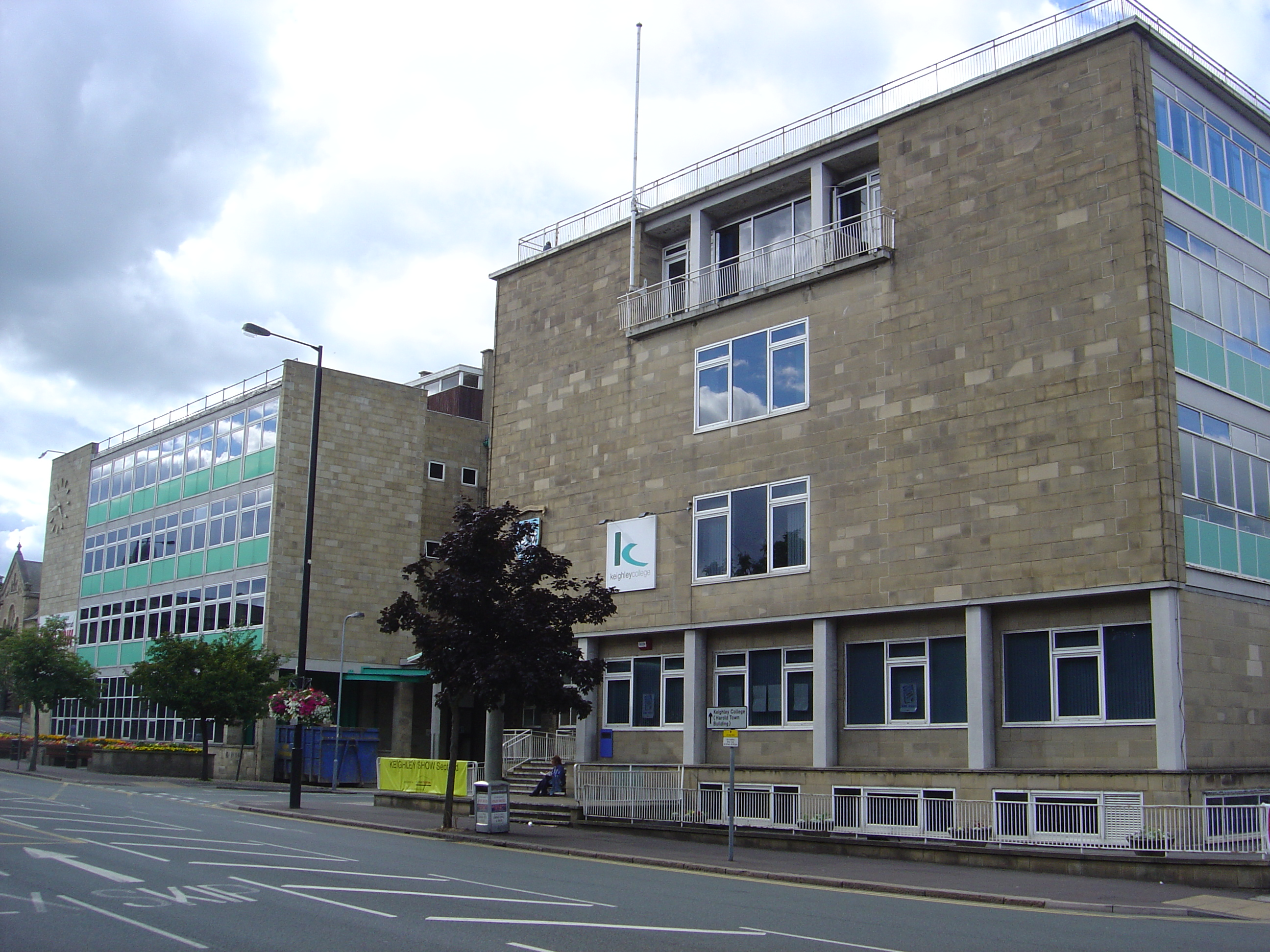 Keighley College, Keighley, West Yorkshire, UK August 2005. The building on the left is demolished, on the right is disused and scheduled to be demolished.